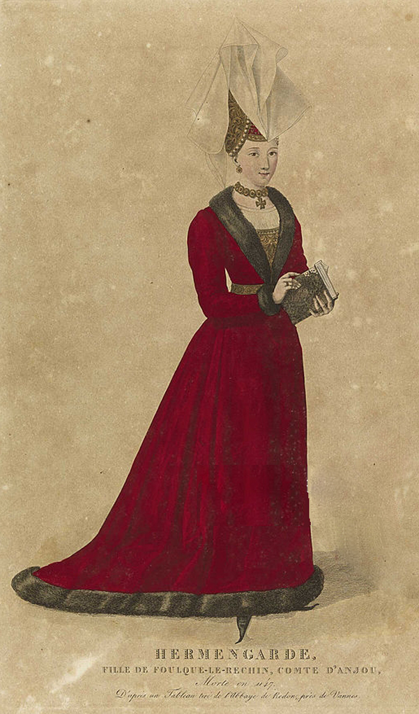 Ermengarde d'Anjou (d.1146), duchess of Aquitaine and Brittany